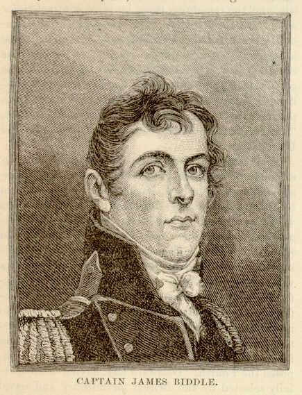 Drawing of James Biddle.